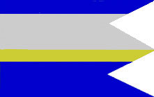 Flag of Čakajovce, Slovakia